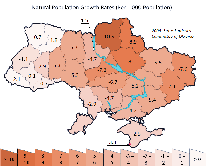 Natural population growth rates of Ukrianian by oblast (2009). Based on data from the statistics committee of Ukraine